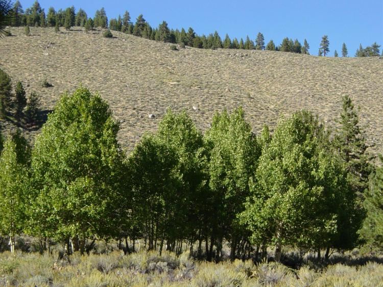 Image taken in September 2003 by Daniel Mayer.